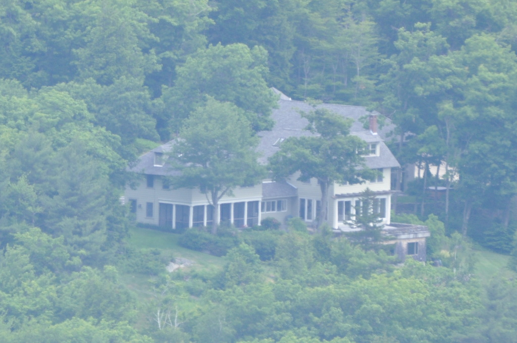 Possibly the T. H. Cabot Cottage in Dublin, New Hampshire. This house is located on the site of the cottage, but has a much larger footprint. It may include part of that building in its structure. Picture was taken from the slopes of Mount Monadnock.